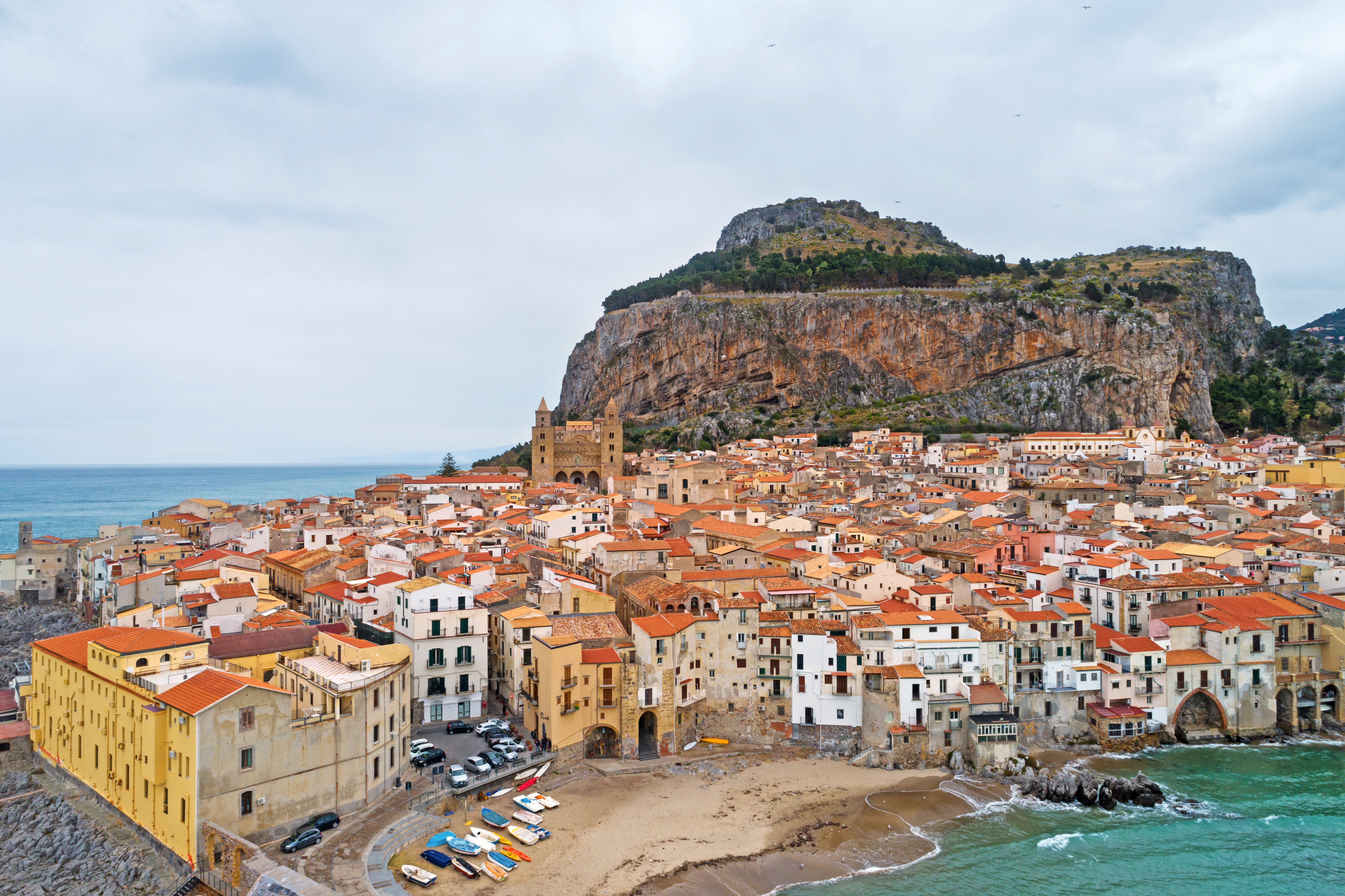 View of Cefalu, Sicily